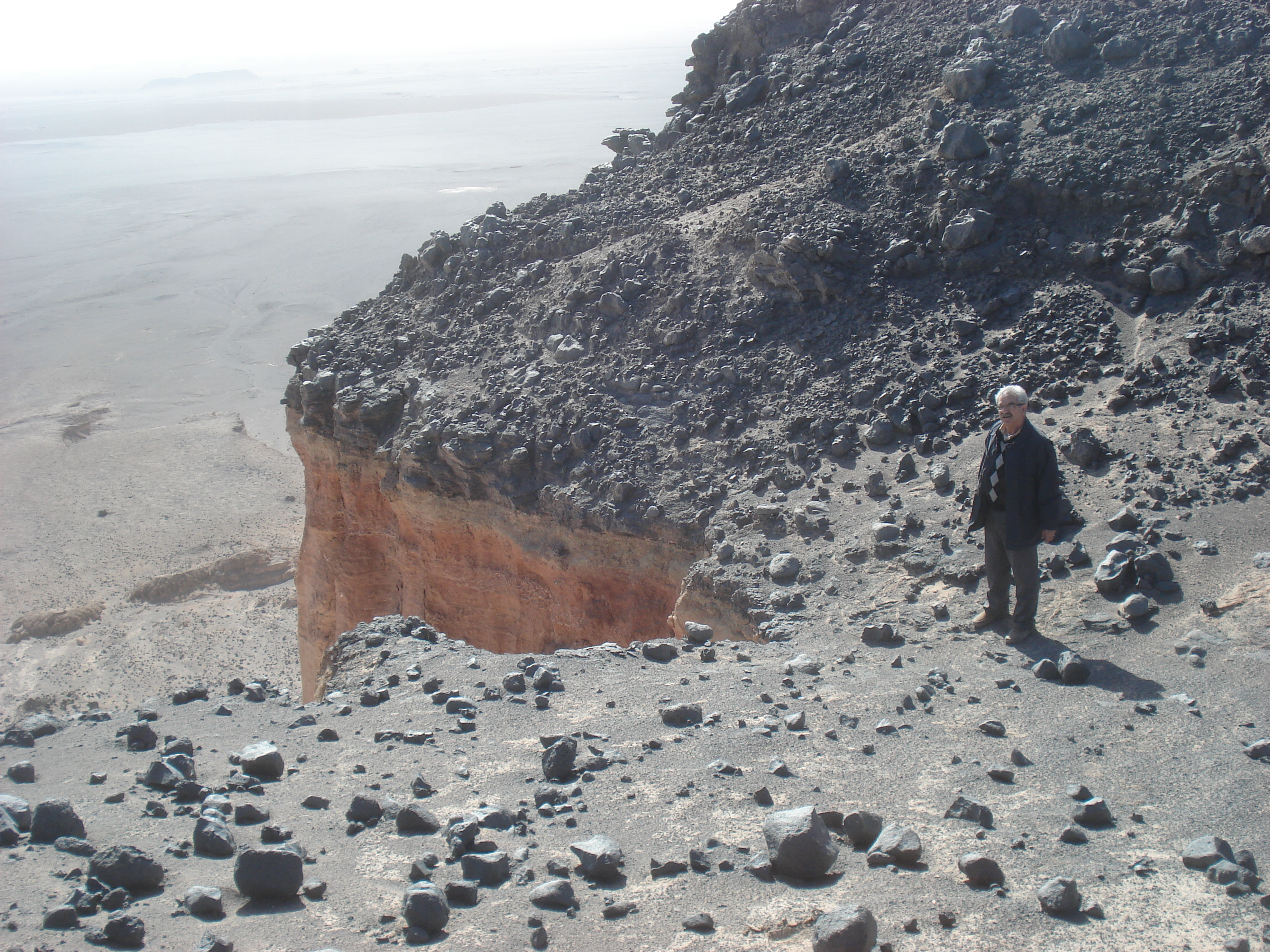 Seyed Kazem Alavipanah